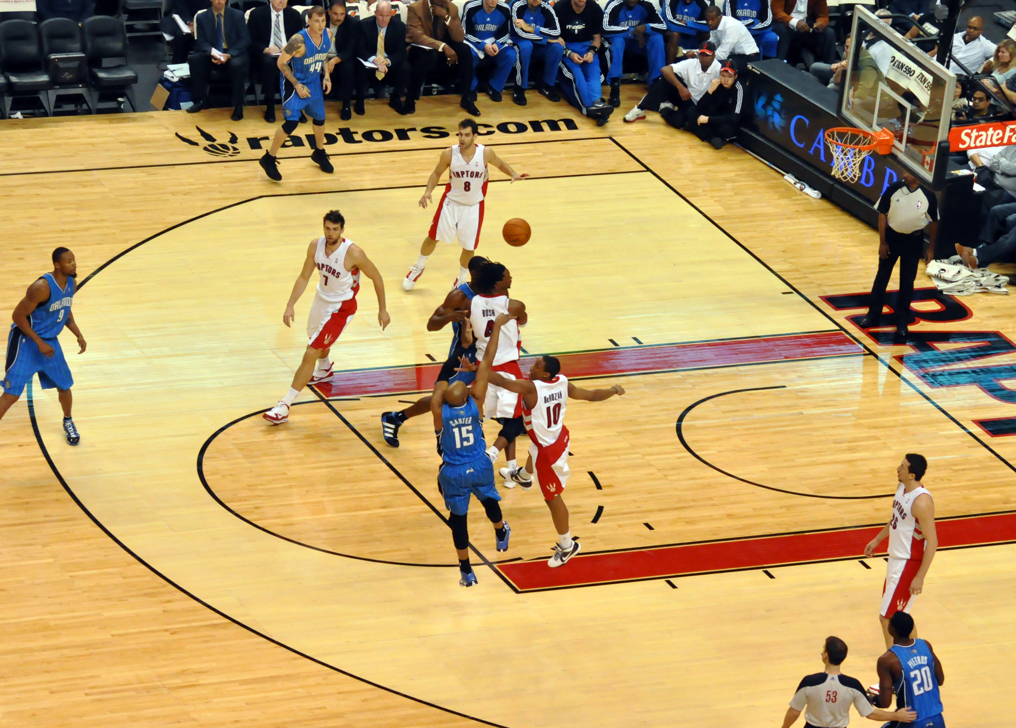 Toronto Raptors v Orlando Magic 2009